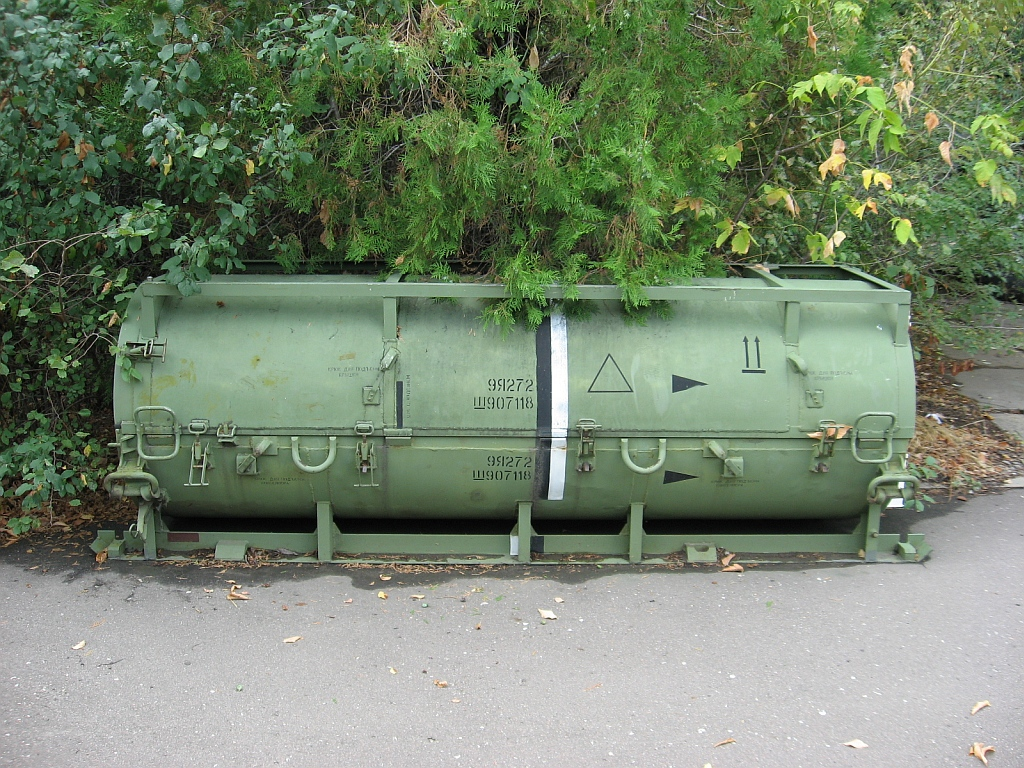 Container 9Ya272 for transporting warhead 9N65 of the tactical ballistic missile complex 9K79 Tochka.